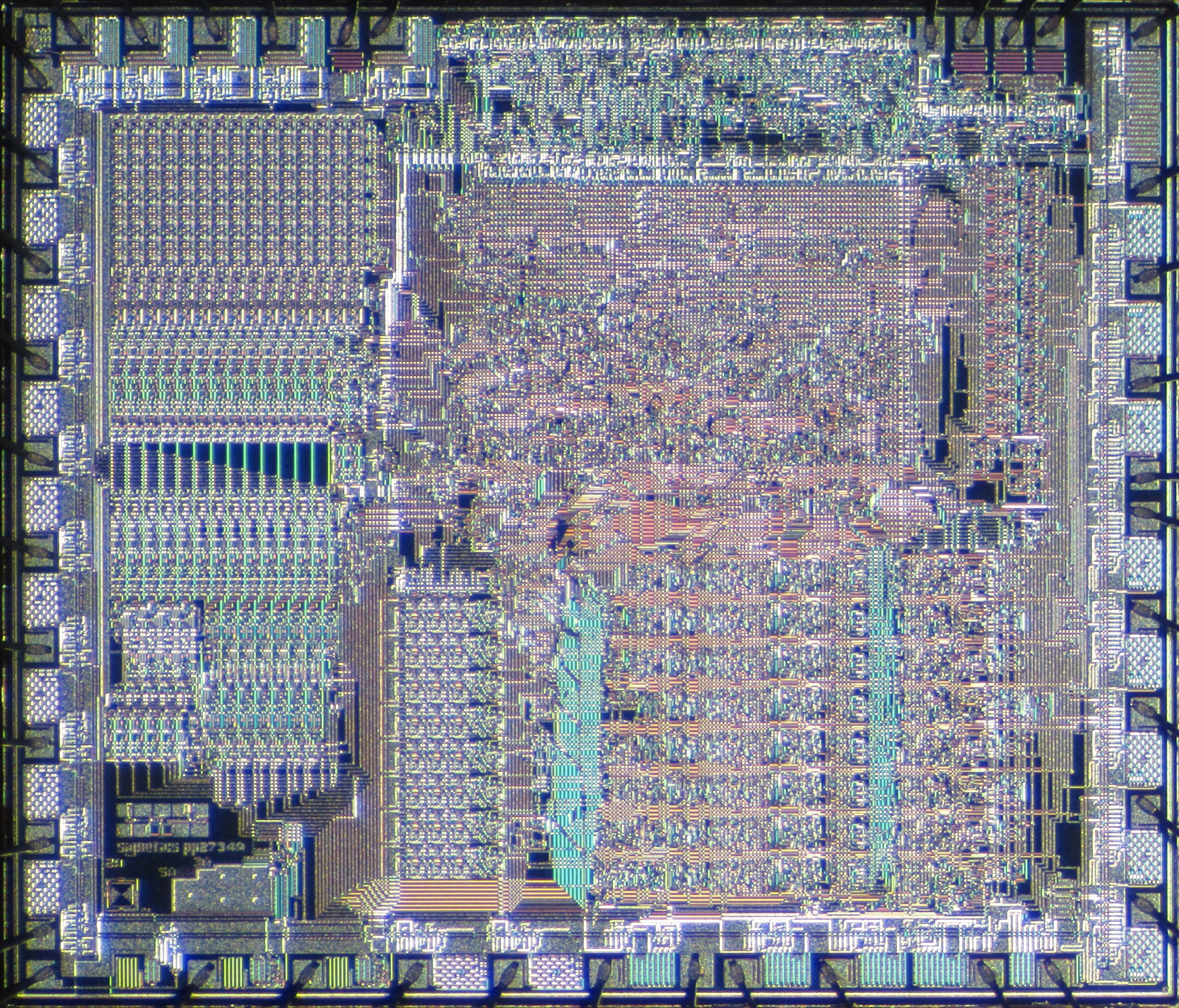 Die shot of Signetics 2650A microprocessor (2650AI).